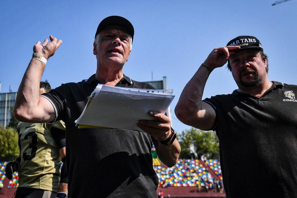 Алексей и главный тренер Московских Спартанцев Алексей Геец во время игры против Московских Патриотов в финале 2018 год